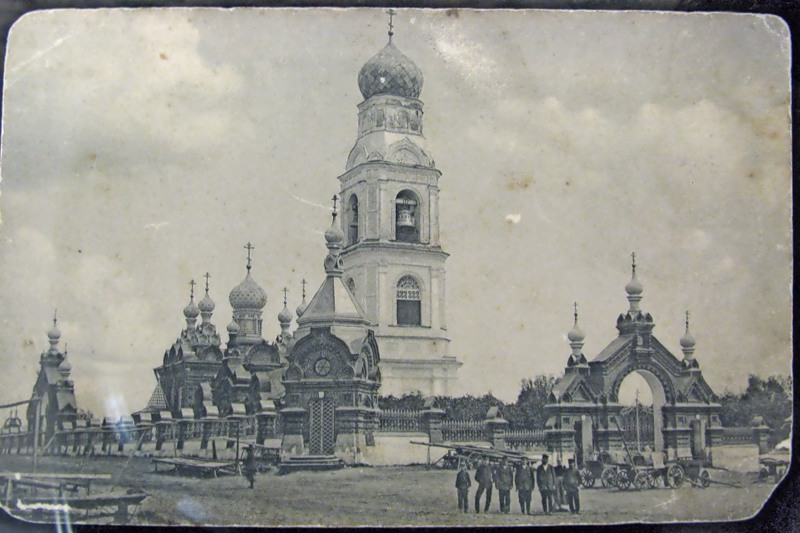 Pre-1917 postcard of the Church of Archangel Michael in Taldom. Most of it has been destroyed, except for the hulk of the church proper. The destroyed belltower is now (2011) being rebuilt, apparently to the original design although it doesn't look as impressive as it looks here.